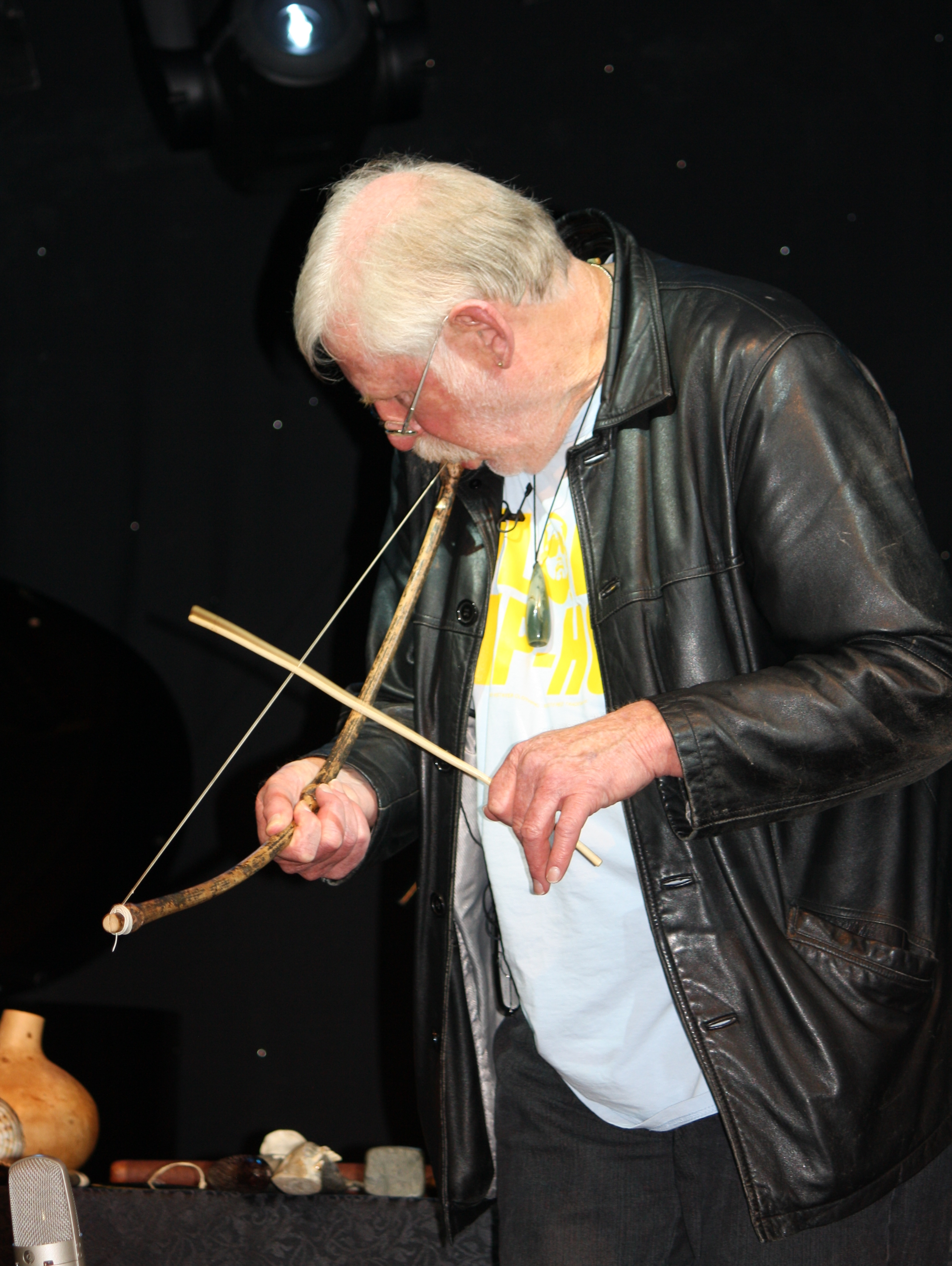 Richard Nunns in 2011 playing a kū, a traditional Māori mouthbow.